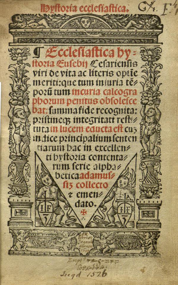 Title page of a 1526 edition of Eusebius: Ecclesiastical history.